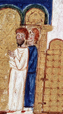 Cardinal Humbert in dispute with patriach Kerularij 1054